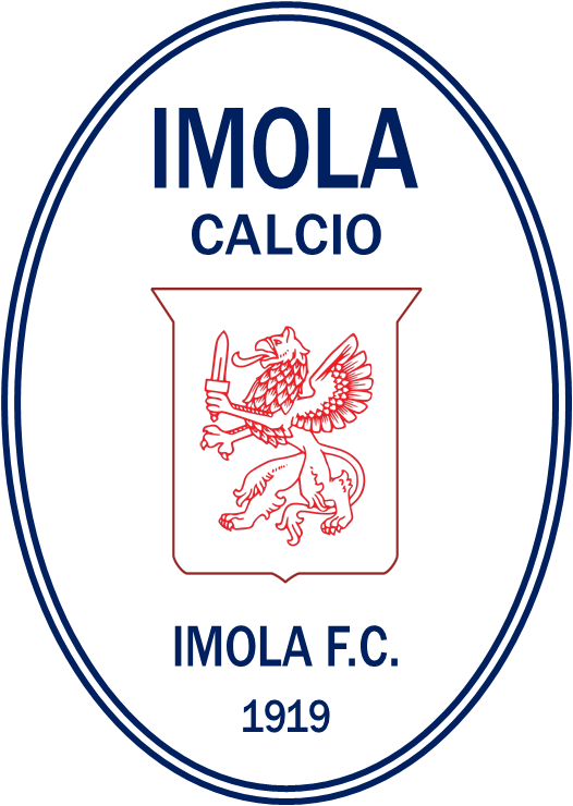 Imola Football Club crest from the 1990s